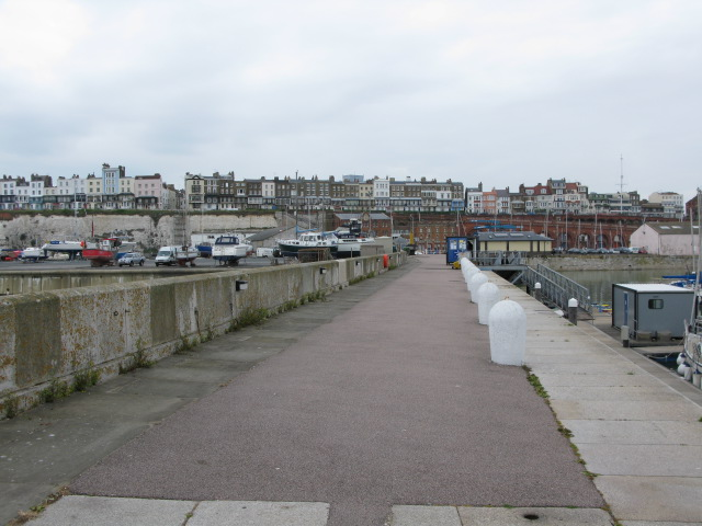 A view of Ramsgate from the West Pier